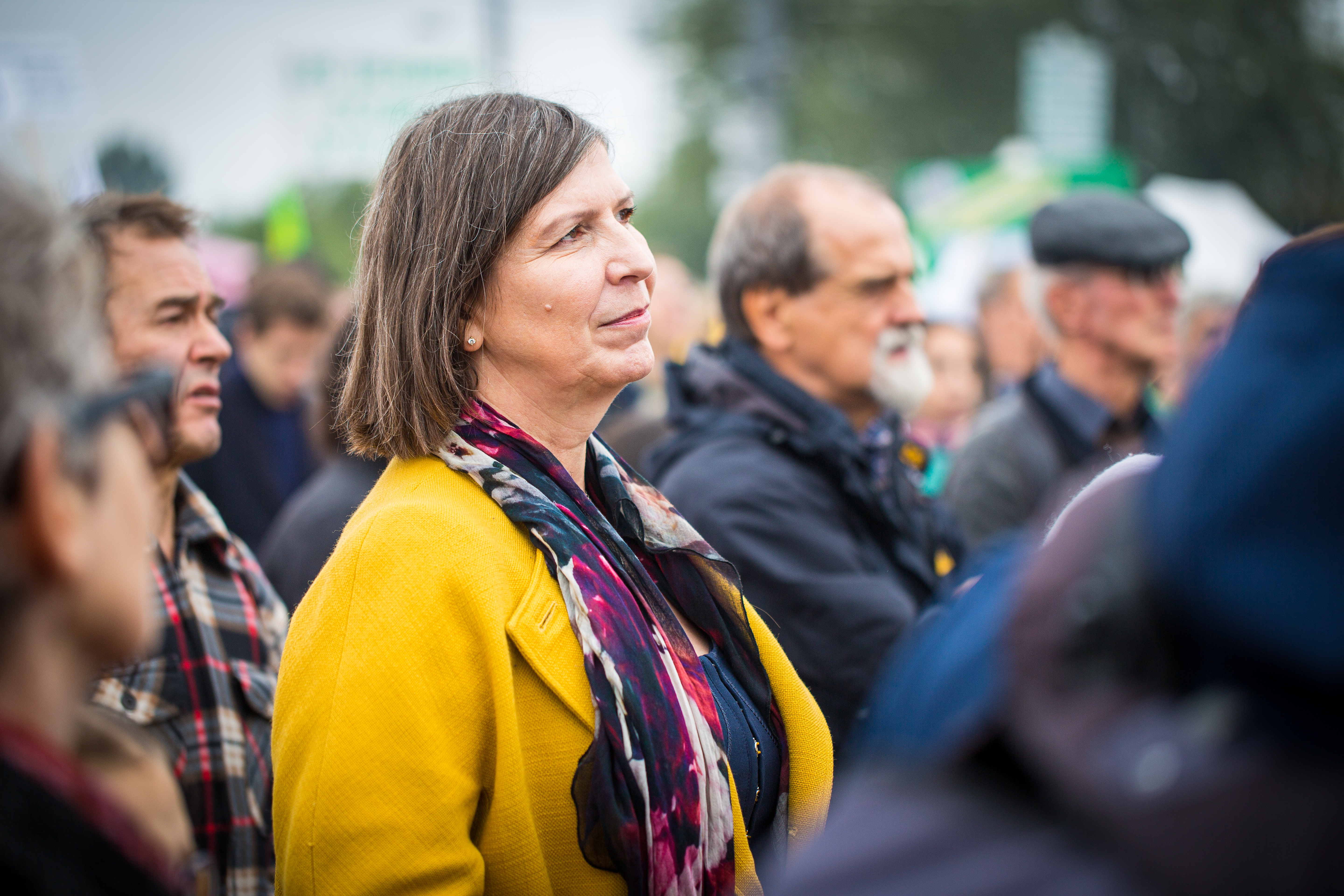 in the context of the reform of the CAP, an important citizen mobilization took place in Strasbourg to oppose the current project and demand a fairer, healthier, more sustainable Common agricultural policy !